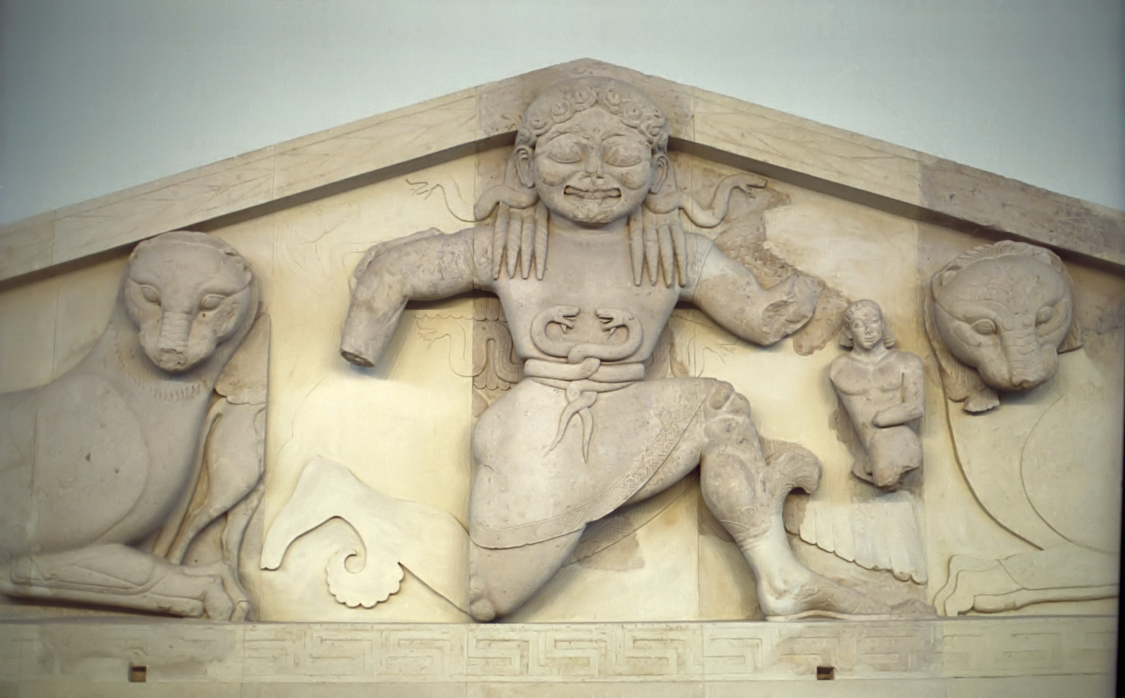 Západní tympanon Artemísia, centrální část. Obří Gorgóneion, 580 BC. Archeologické muzeum na Korfu.